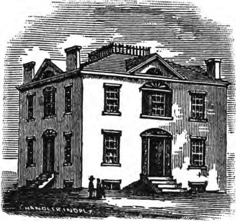 A sketch of Indiana's first governors mansion that was located on the Indianapolis Circle, now the site of the sailor and soldiers monument